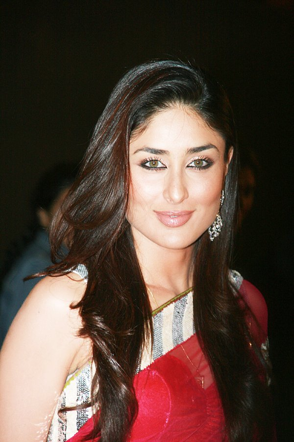 Indian actress Kareena Kapoor at the 2008 Global Indian TV Honours